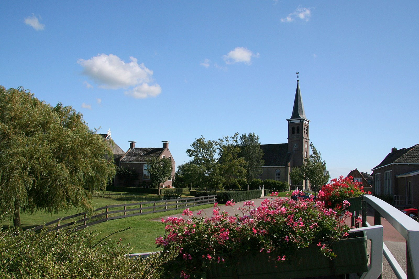 Blik op Schettens een terpdorp in de Gem. Wonseradeel. De kerk dateert uit 1856.